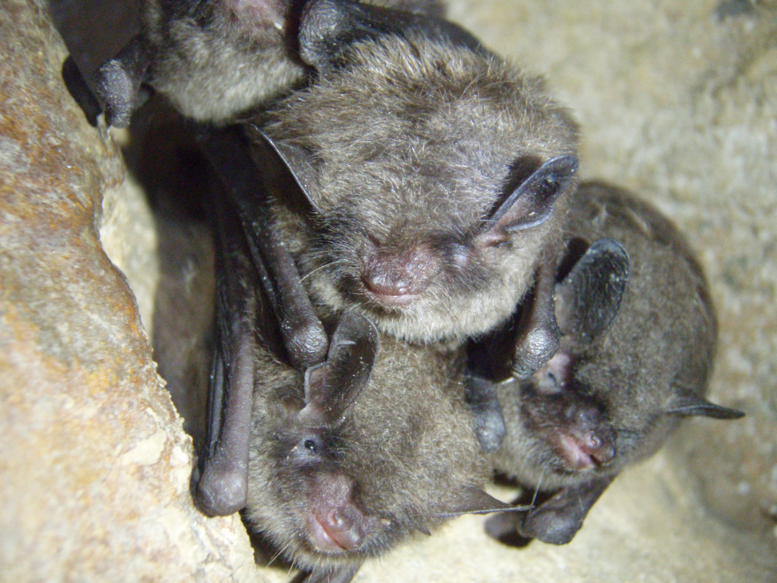 healthy Indiana bats (Myotis sodalis) photo credit: Ann Froschauer/USFWS